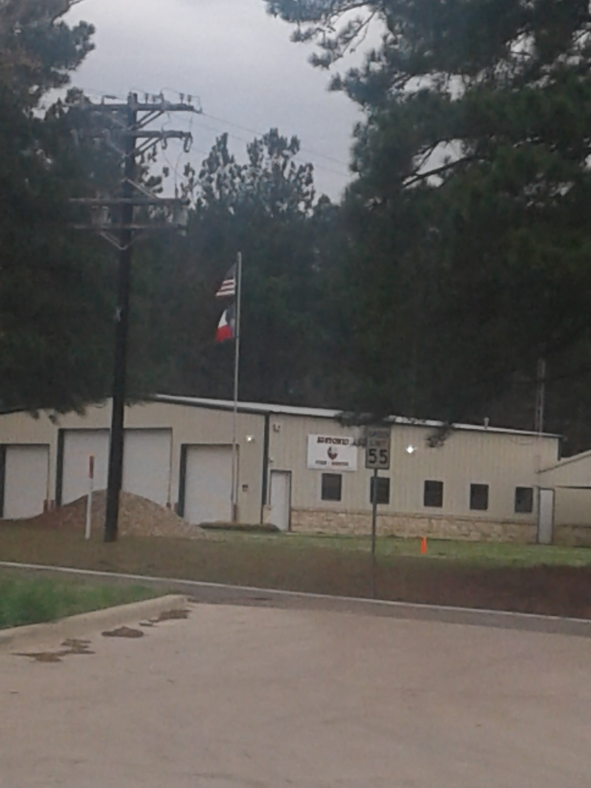 fire dept